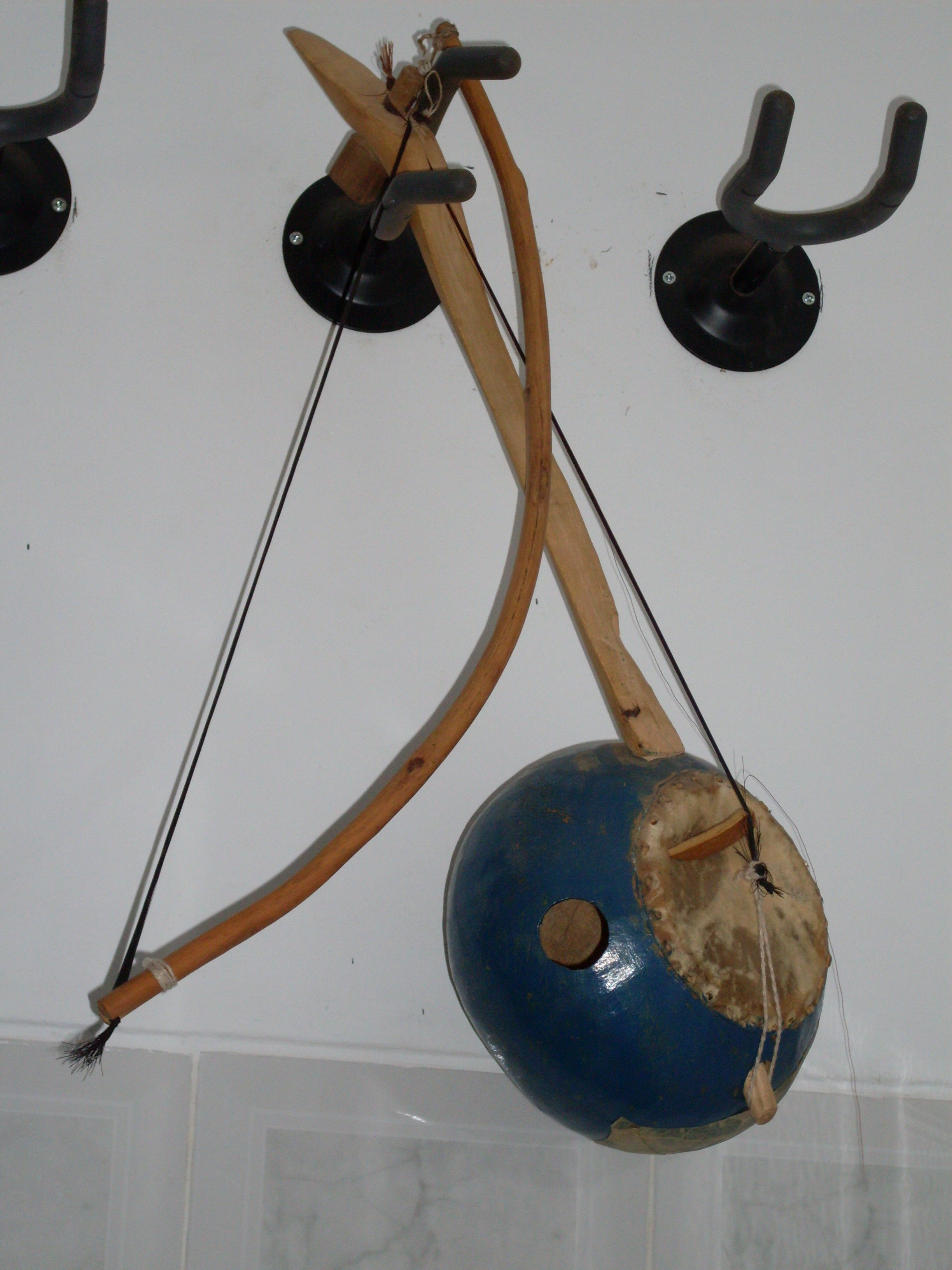 Cimboa. Many thanks to the Pentagrama music school for alowing me to take this picture.